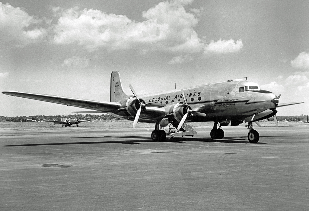 Douglas DC-4 (C-54A) Skymaster of Colonial Airlines